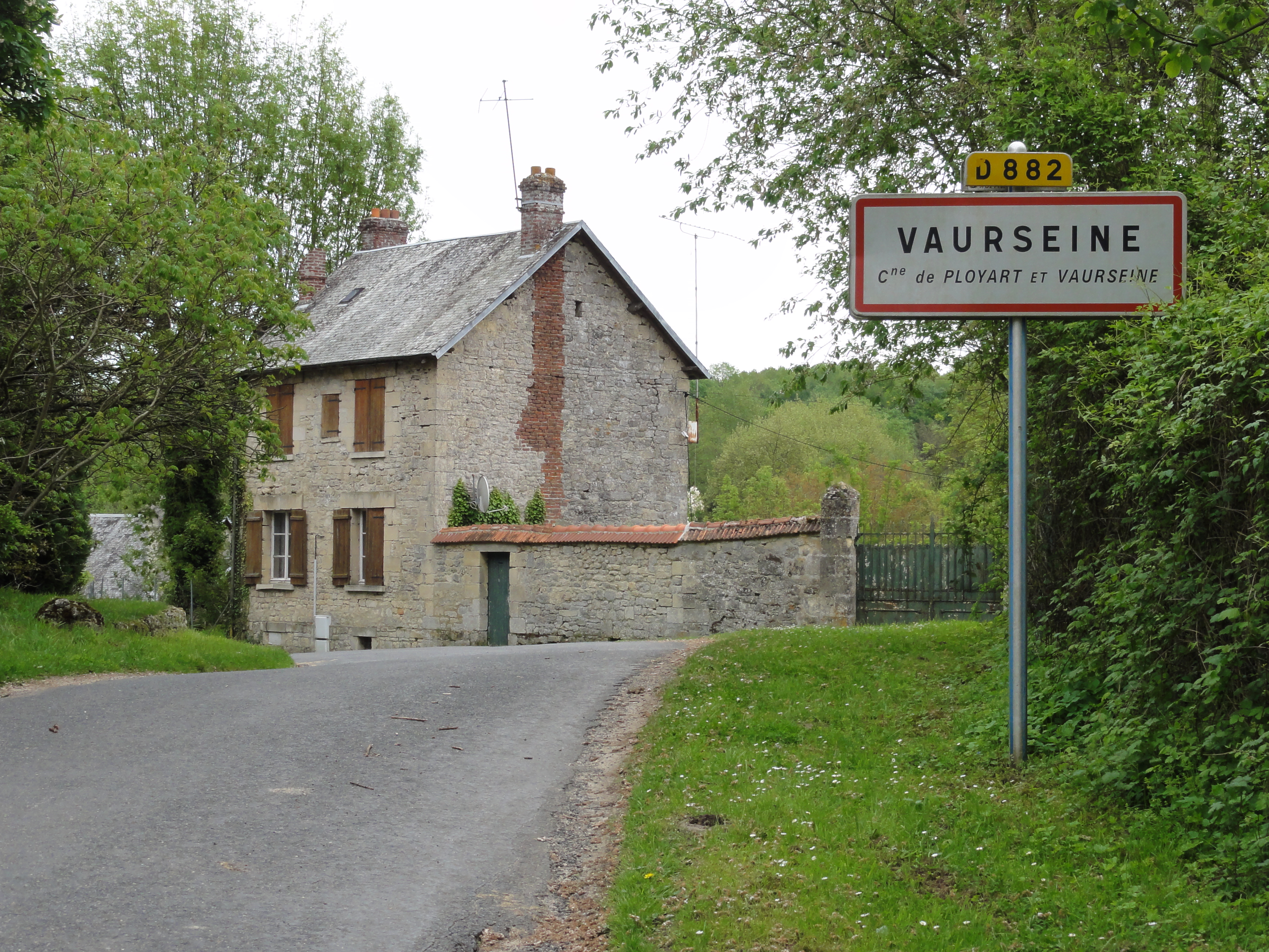 Ployart-et-Vaurseine (Aisne) city limit sign Vaurseine